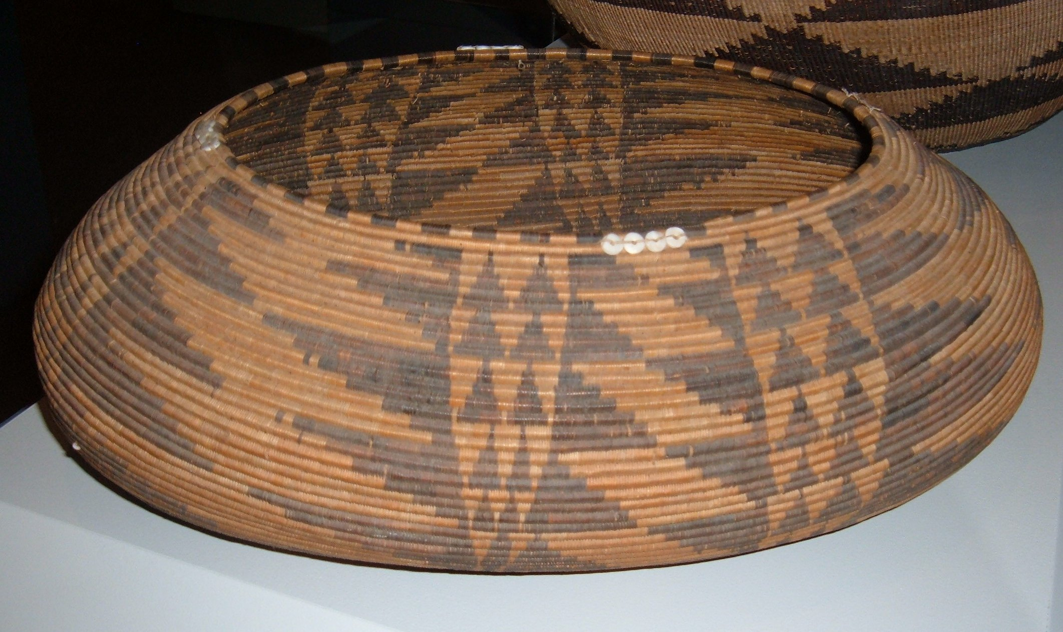 Pomo basket (19th century) — made of mountain birch, redbud, clam shells, and beads, California. On display at the Iris & B. Gerald Cantor Center for Visual Arts on the Stanford University campus in Stanford, California.